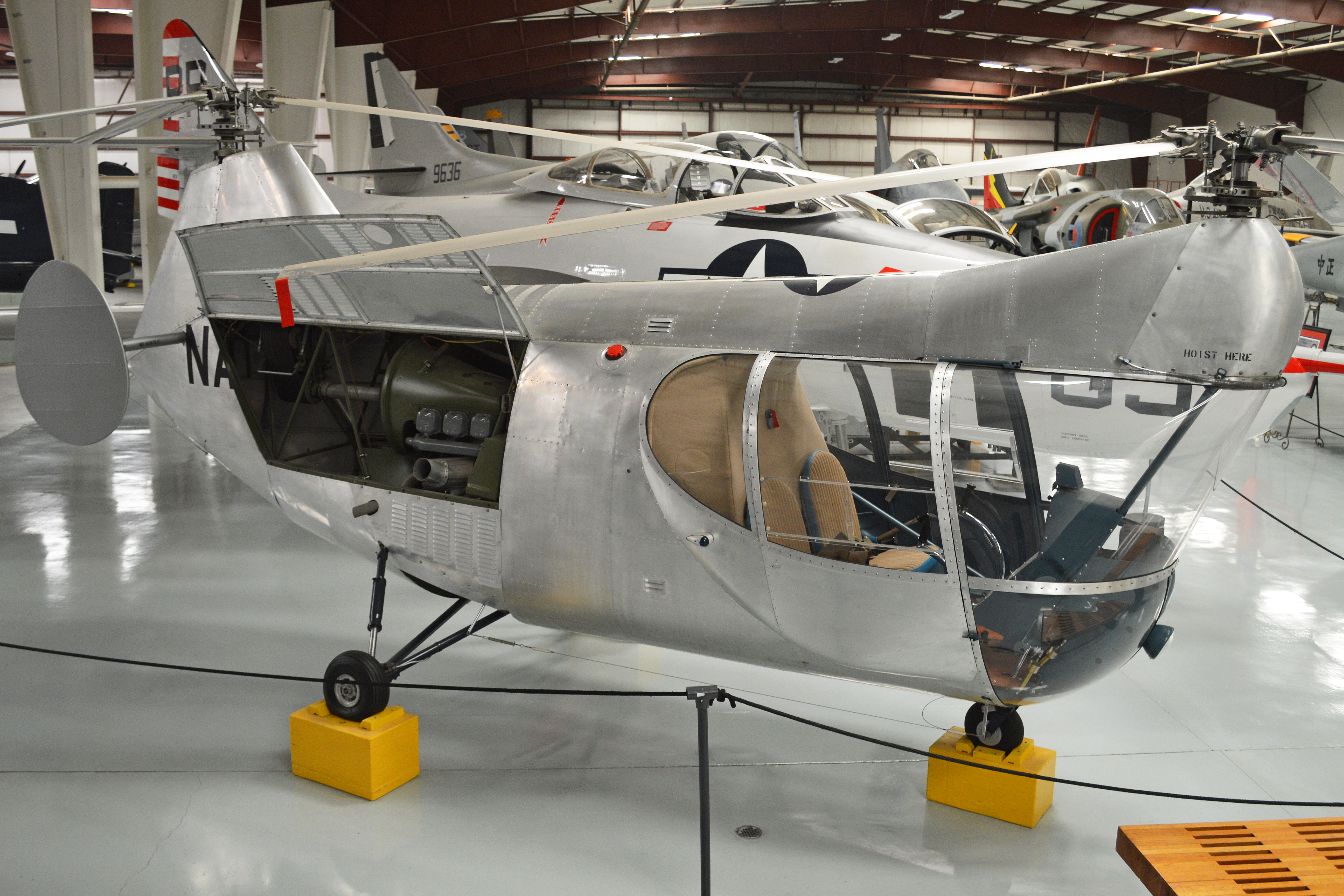 c/n 1002. Built 1953 as one of two MC-4As for the U.S Navy designated as the XHUM-1. Restored unmarked, it is on display in Hangar 2 at the Yanks Air Museum, Chino, California, USA. 28-2-2016.